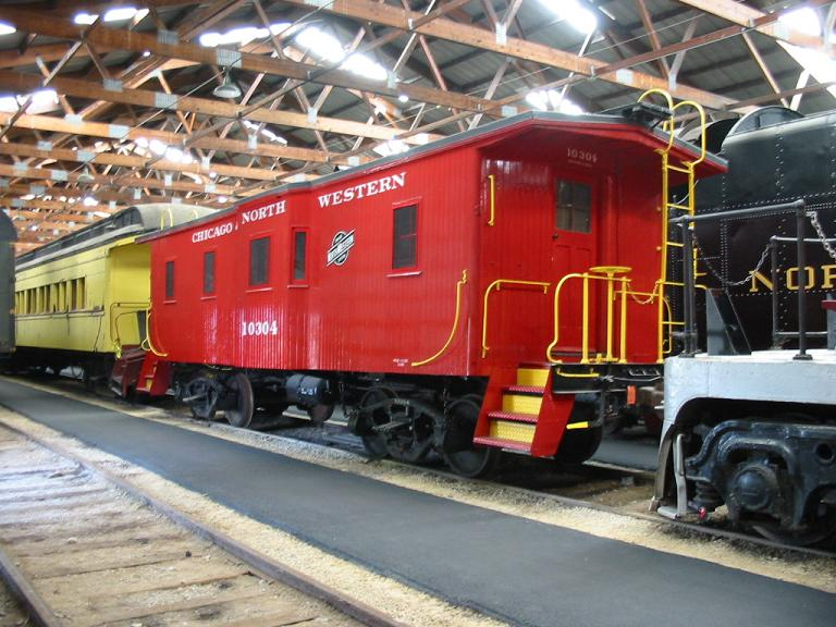 A bay window caboose on display at the Illinois Railway Museum Photo by Sean Lamb (User:Slambo), July 18, 2004